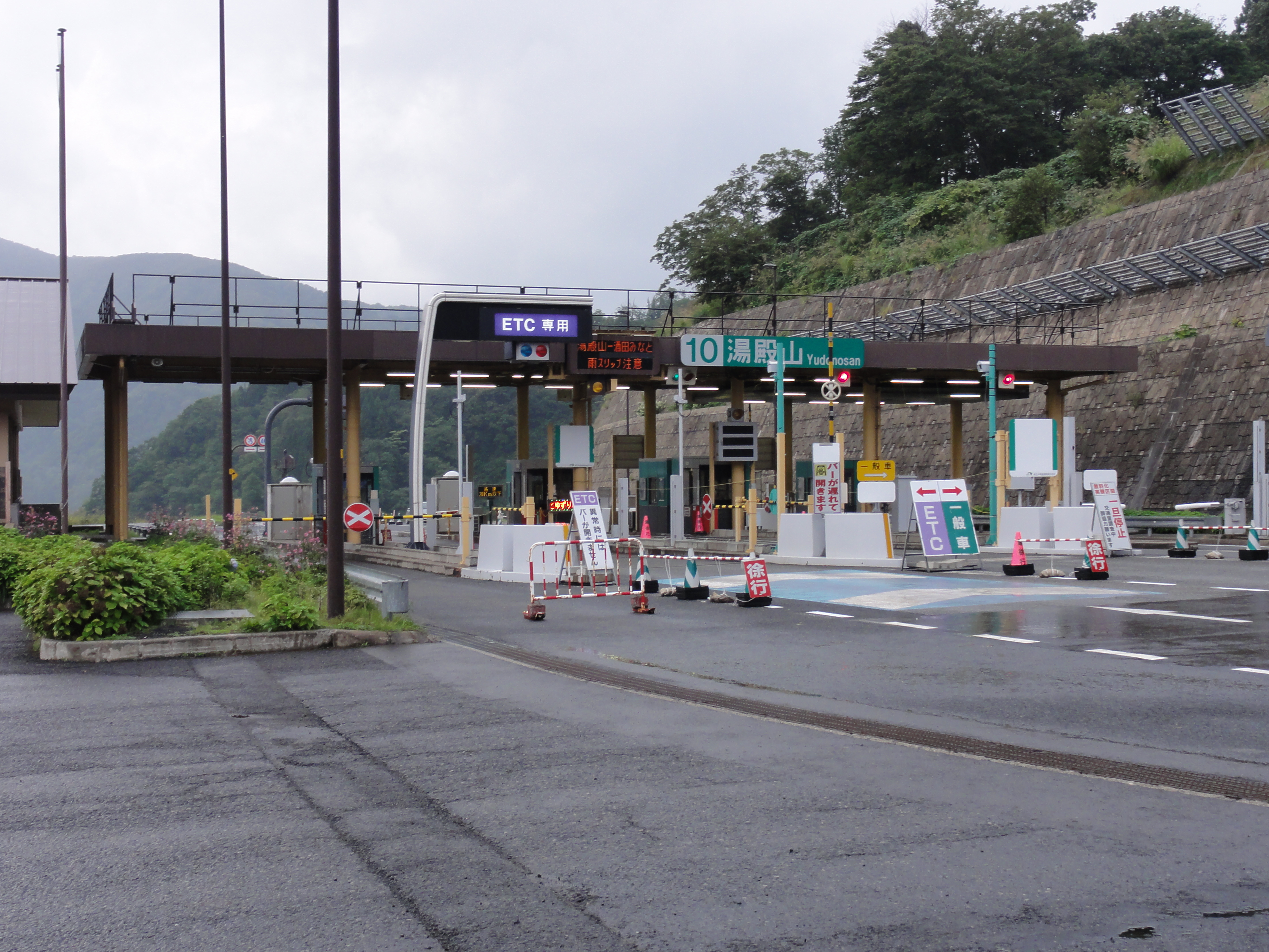 Yudonosan Intercahnge, Yamagata Pref., Japan